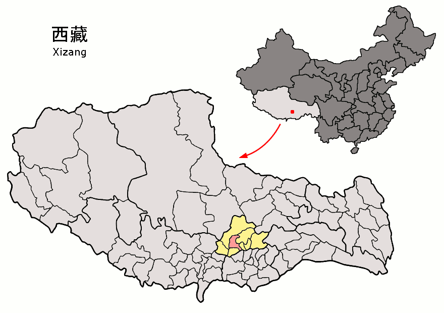 Location of Doilungdêqên County (pink) and Lhasa prefecture (yellow) within Tibet (Xizang) autonomous region of China